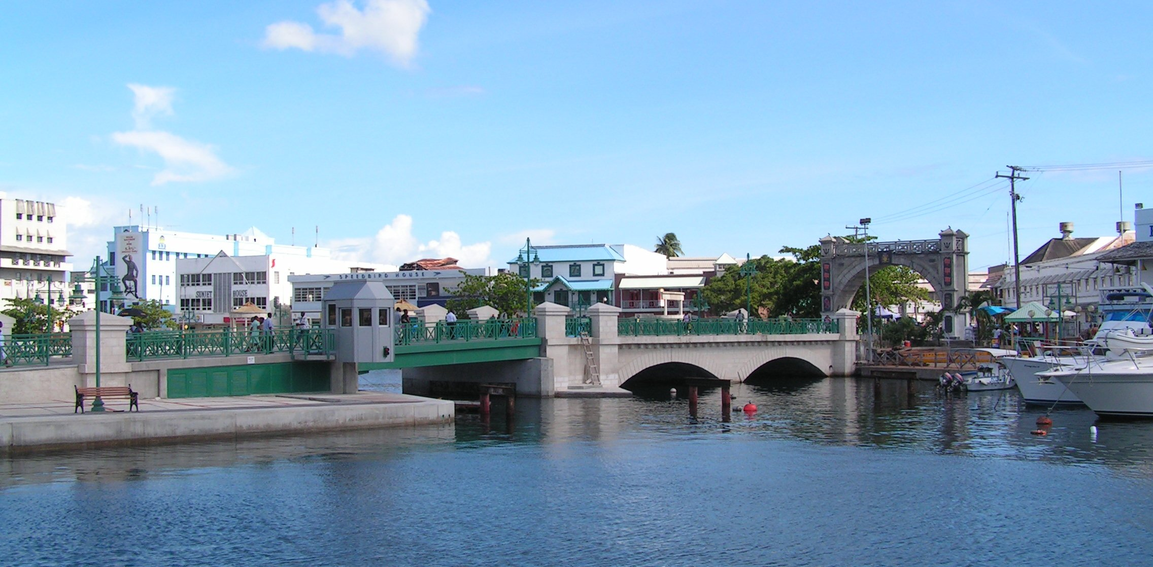 The Chamberlain Bridge spanning the Careenage(Constitution River) along with the Independence Arch in Bridgetown, Barbados